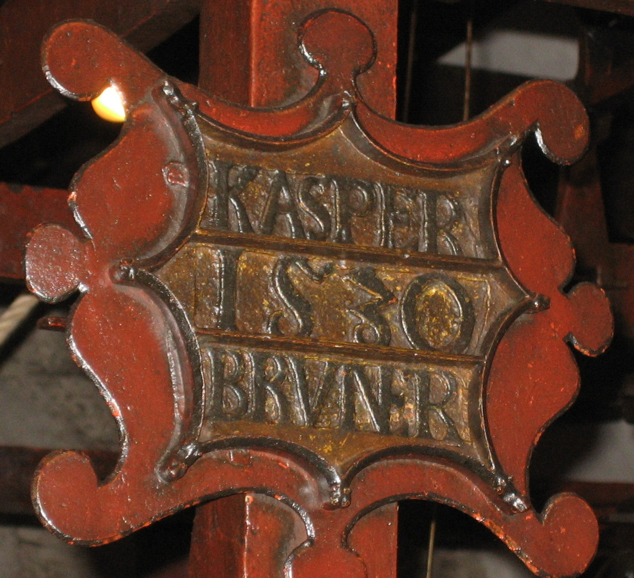 Original Photograph by Fortunat Mueller-Maerki taken in April 2008 on occasion of 2008 horological Study Tour of Switzerland of Antiquarian Horological Society. Picture shows forged data and nameplate made 1530 by the maker of this astronoimical clock in Bern, the clockmaker Kasper Brunner.